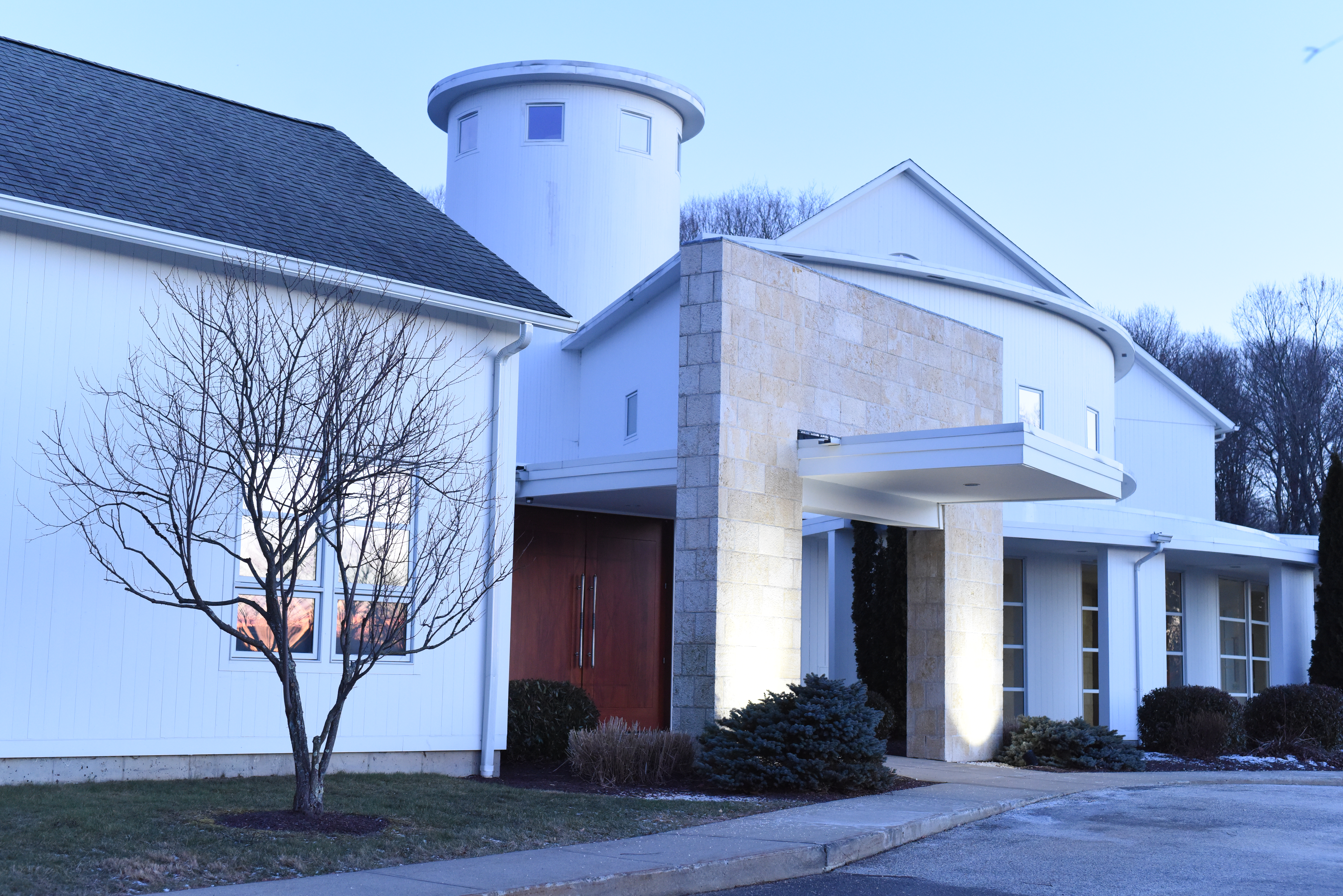 Southbury, CT.